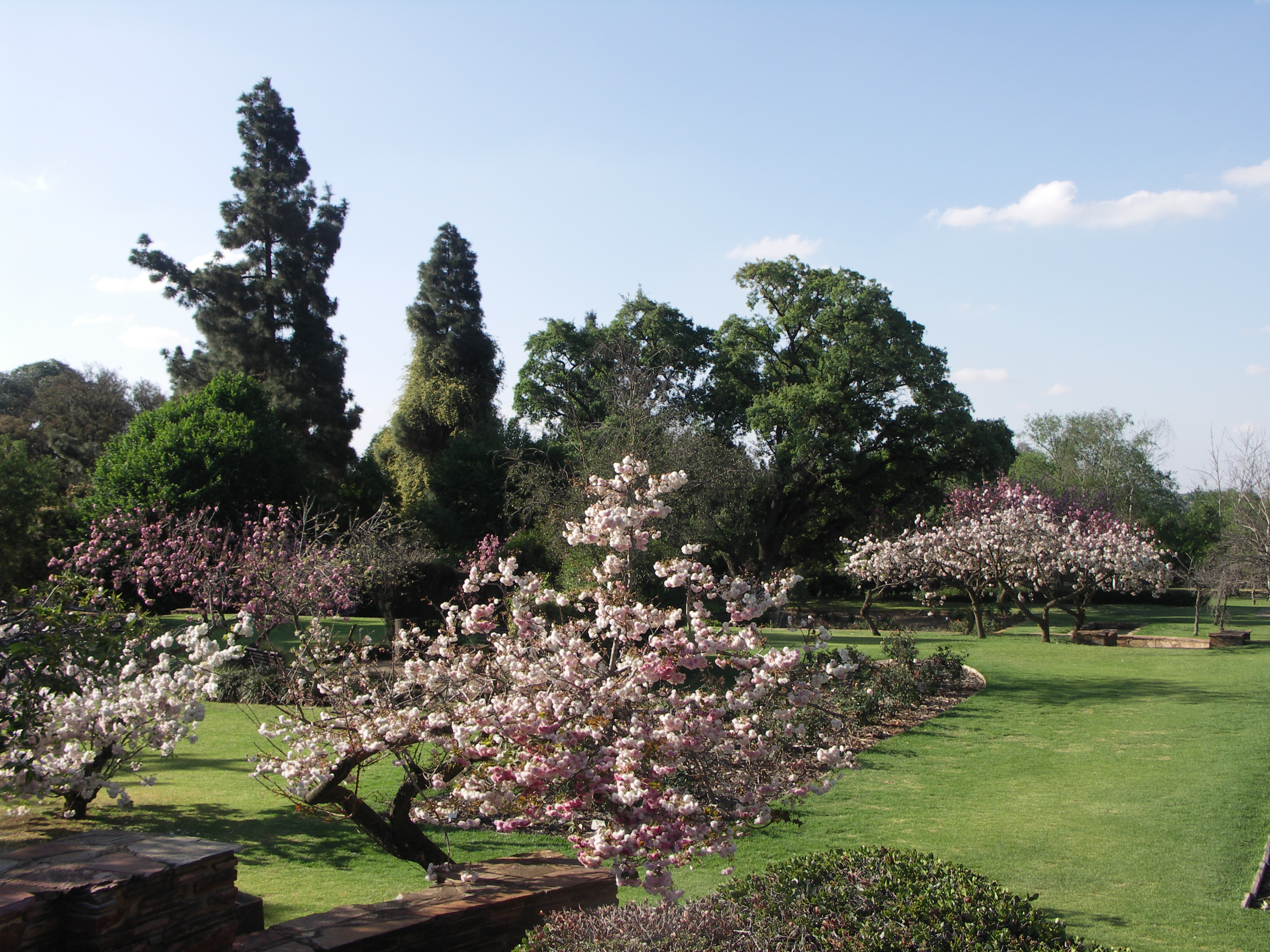 Portion of the Rose Gardens in the Johannesburg Botanical Garden.